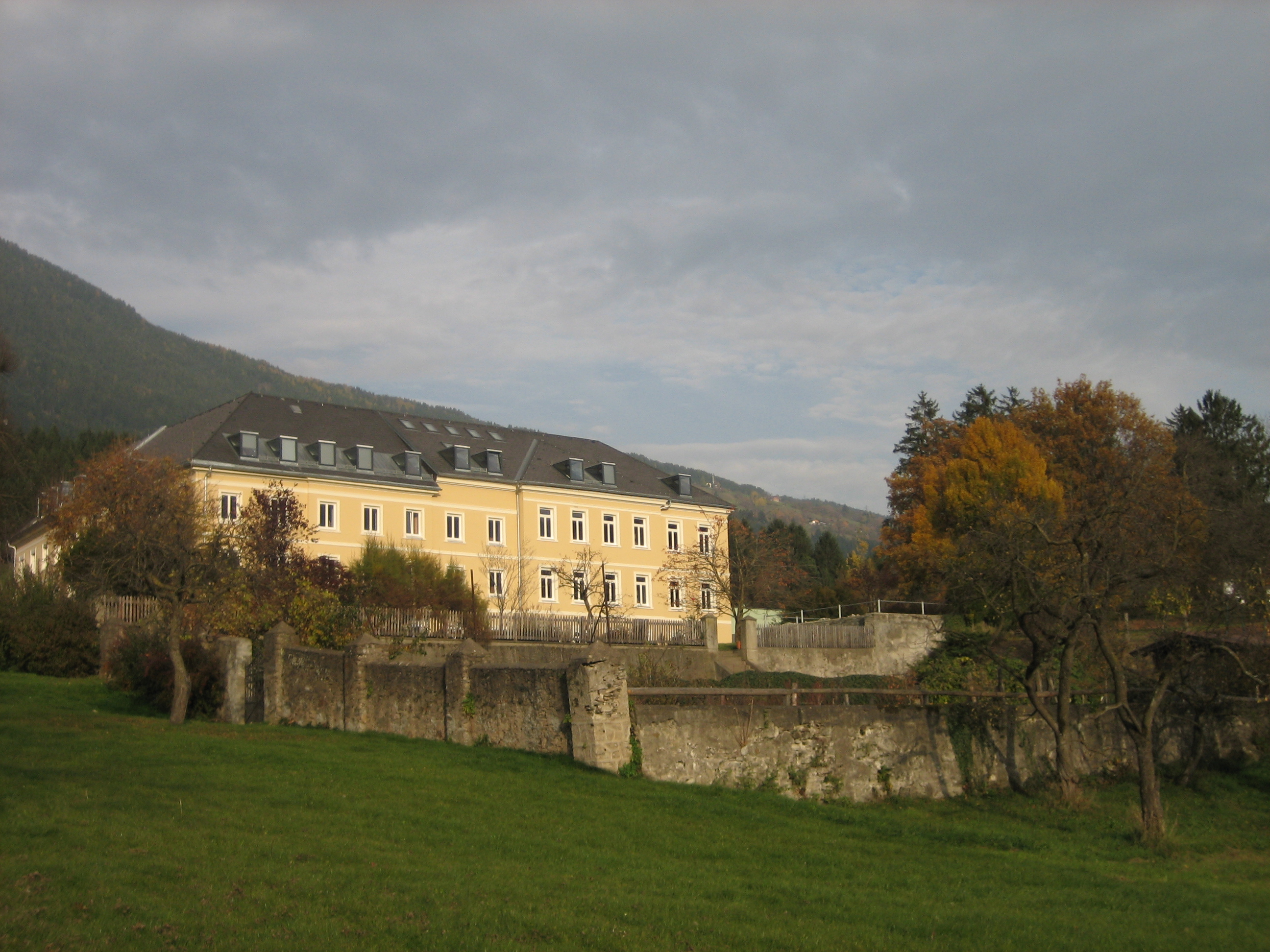 Agricultural College, Litzlhof